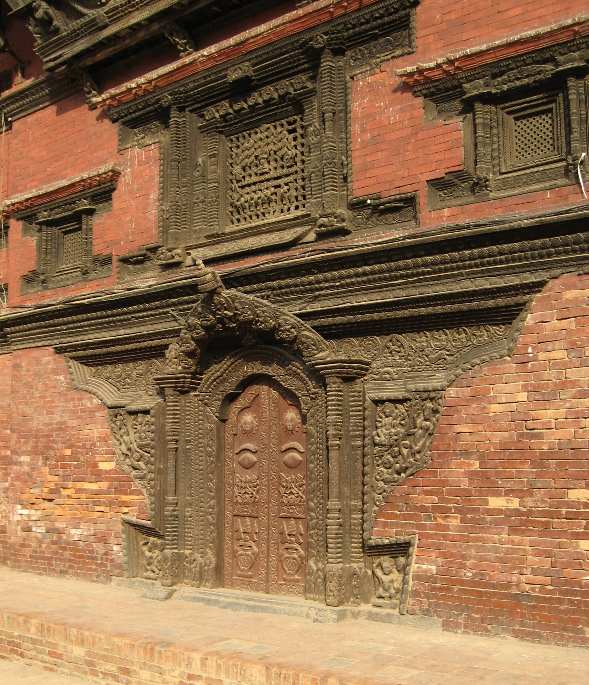 The Patan Durbar Square in Kathmandu. Object location27° 40′ 24″ N, 85° 19′ 30″ E